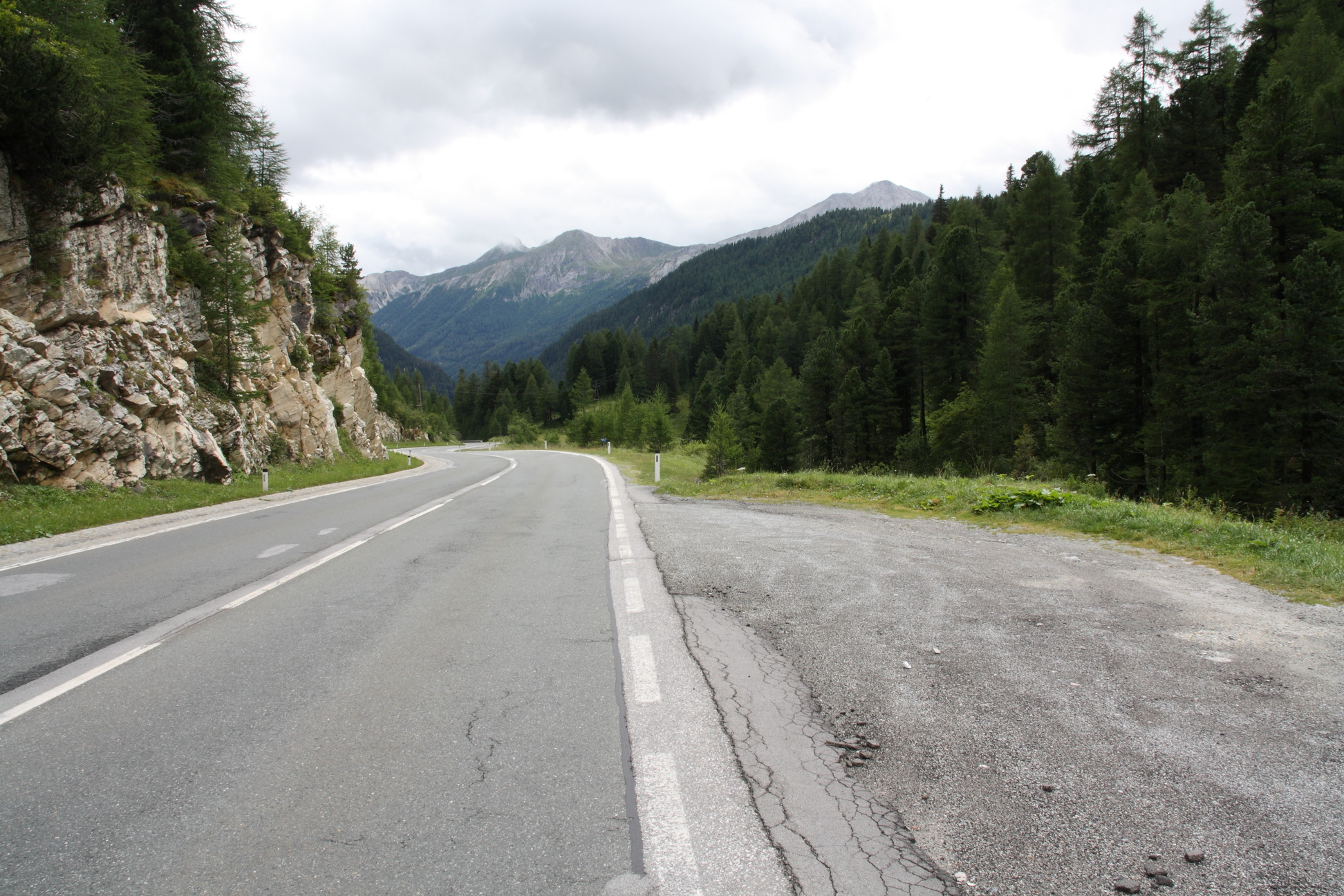 mountain pass "Radstädter Tauernpass", south ramp